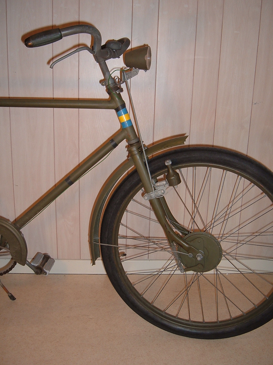 This is a picture of the front end of a m/42 military bicycle from the 1940's or 1950's, showing the handlebars and drum brake. Manufactured by Husqvarna in Sweden for the Swedish Army.